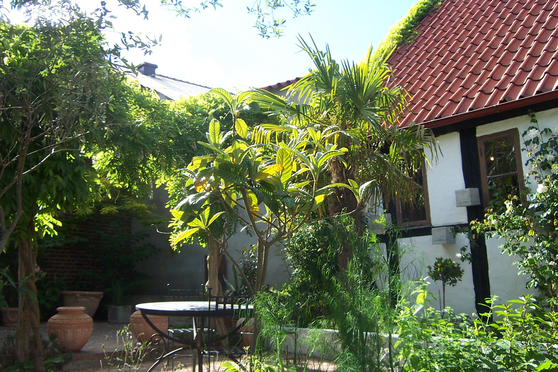 A garden in Simrishamn, Sweden. Located in Osterlen, this is Sweden's "Banana belt", with a climate very similar to the German Rhineland, 600 kilometres further south.